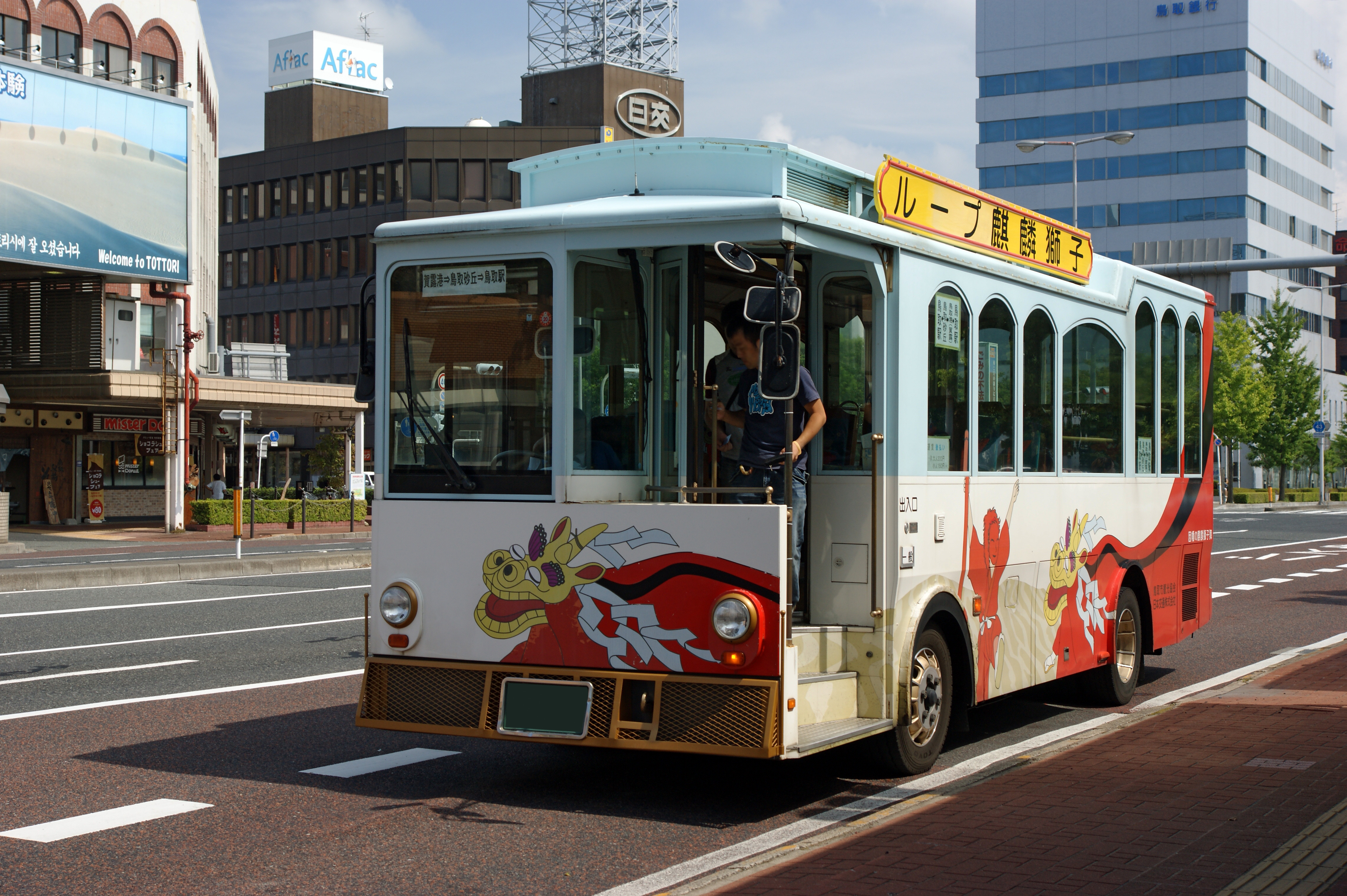 Loop Kirinjishi at Tottori, Tottori prefecture, Japan